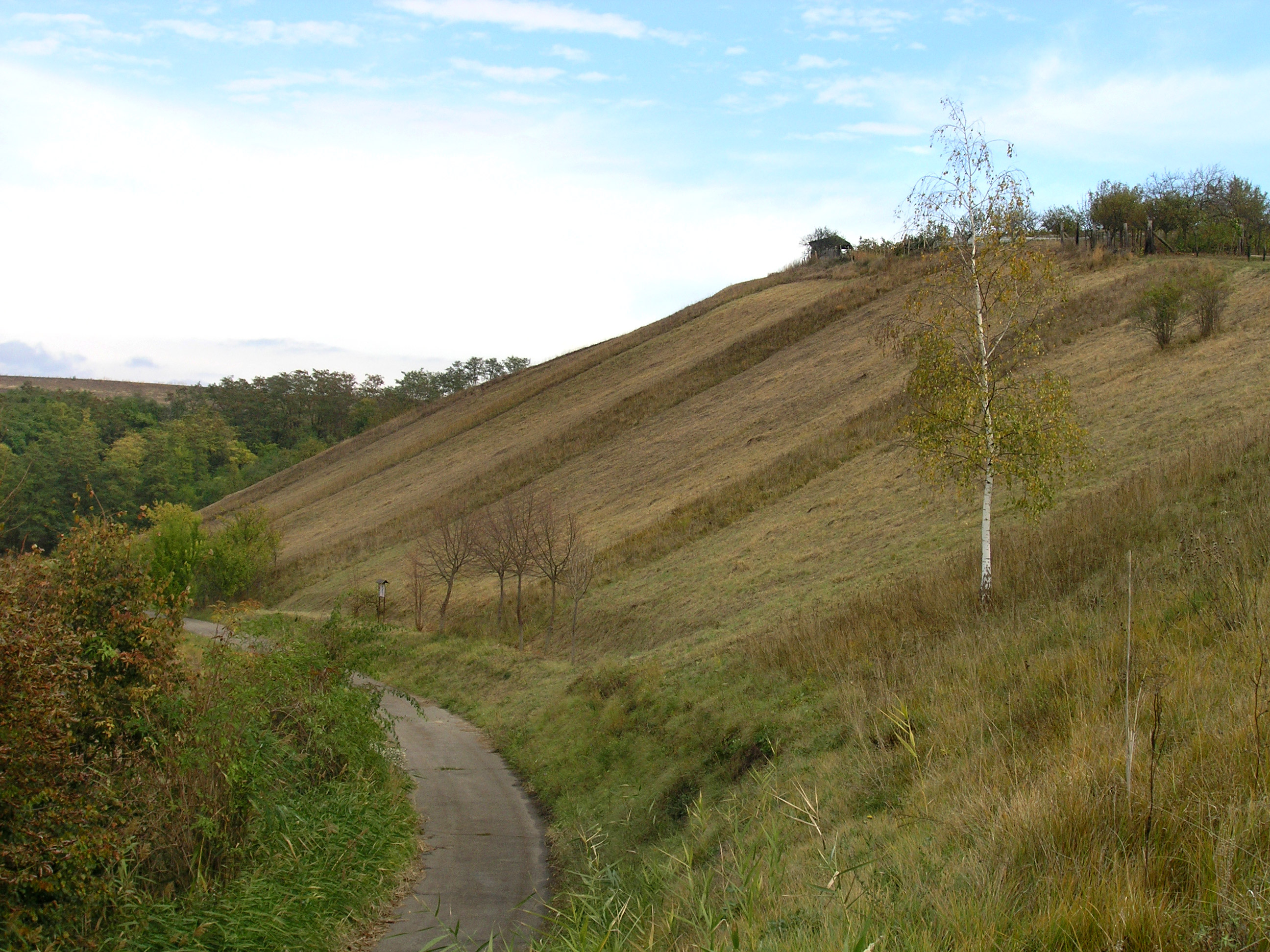 Louky pod Kumstátem Natural Reserve by Krumvíř village, Czech Republic